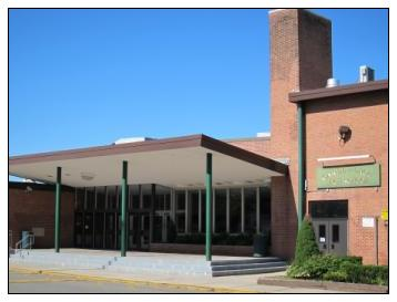 Image of the Carle Place High School